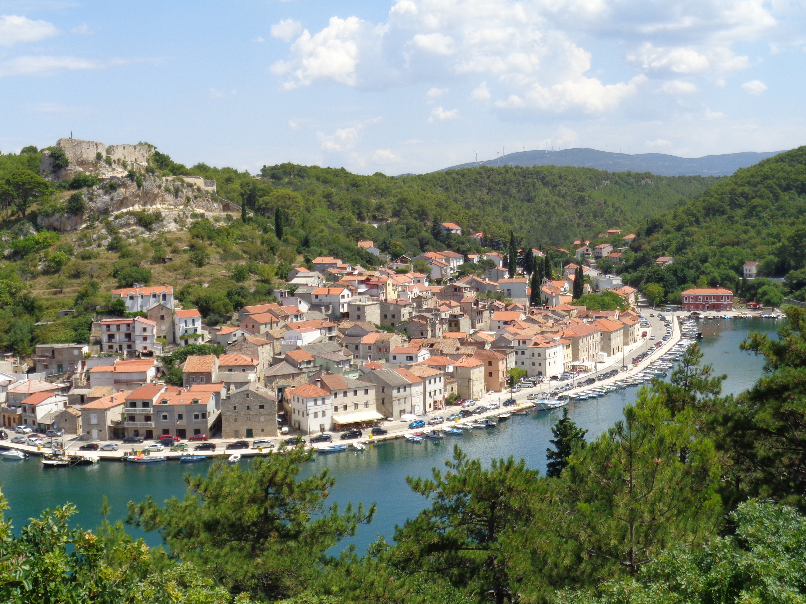 Novigrad (=New Town), Zadar County, Dalmatia Region, Republic of Croatia - panorama